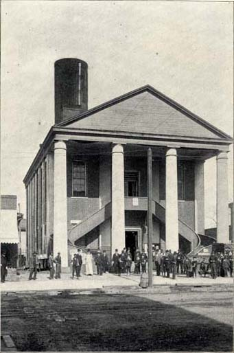 Photograph of the Old Court House, Charlotte, North Carolina, 1888. Image reprinted in "Cotton Mill, Commercial Features," written by D. A. Tompkins, p. 22, published by the author, Charlotte, N.C., 1899.